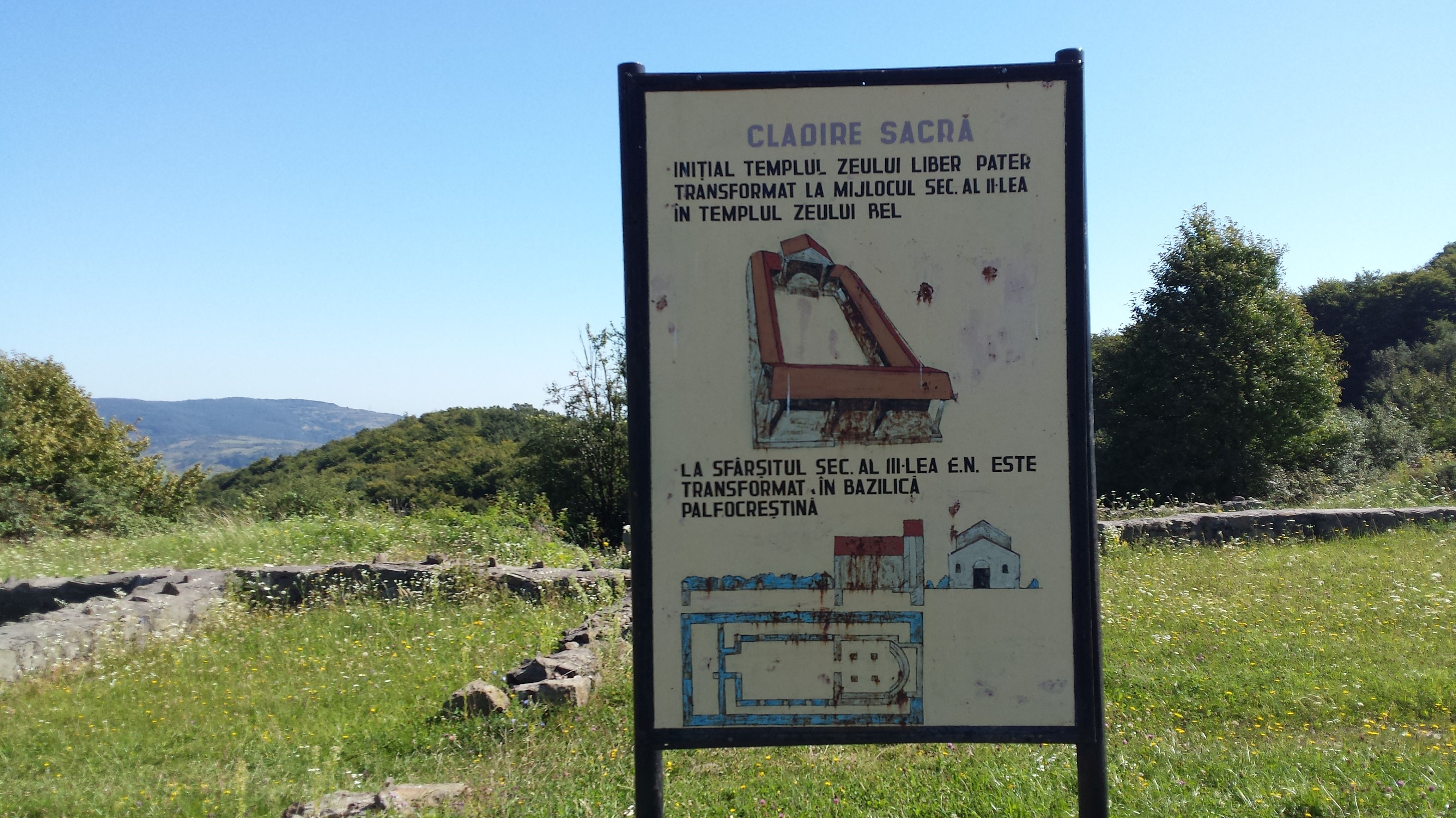 Ruins of a basilica